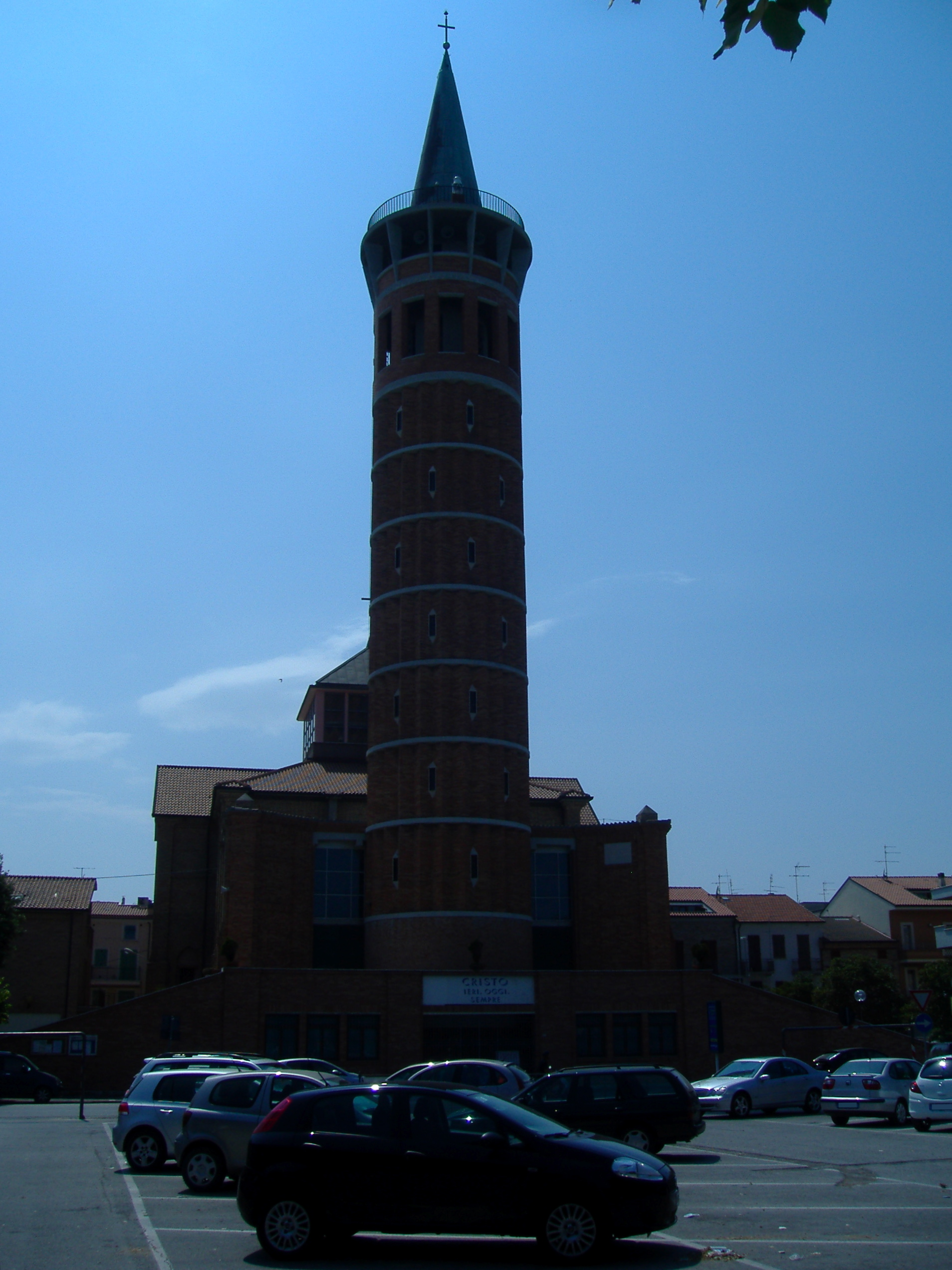 Church of "Cristo Re", Civitanova Marche (MC), Marche, Italy. The bell tower is also the lighthouse of the port.